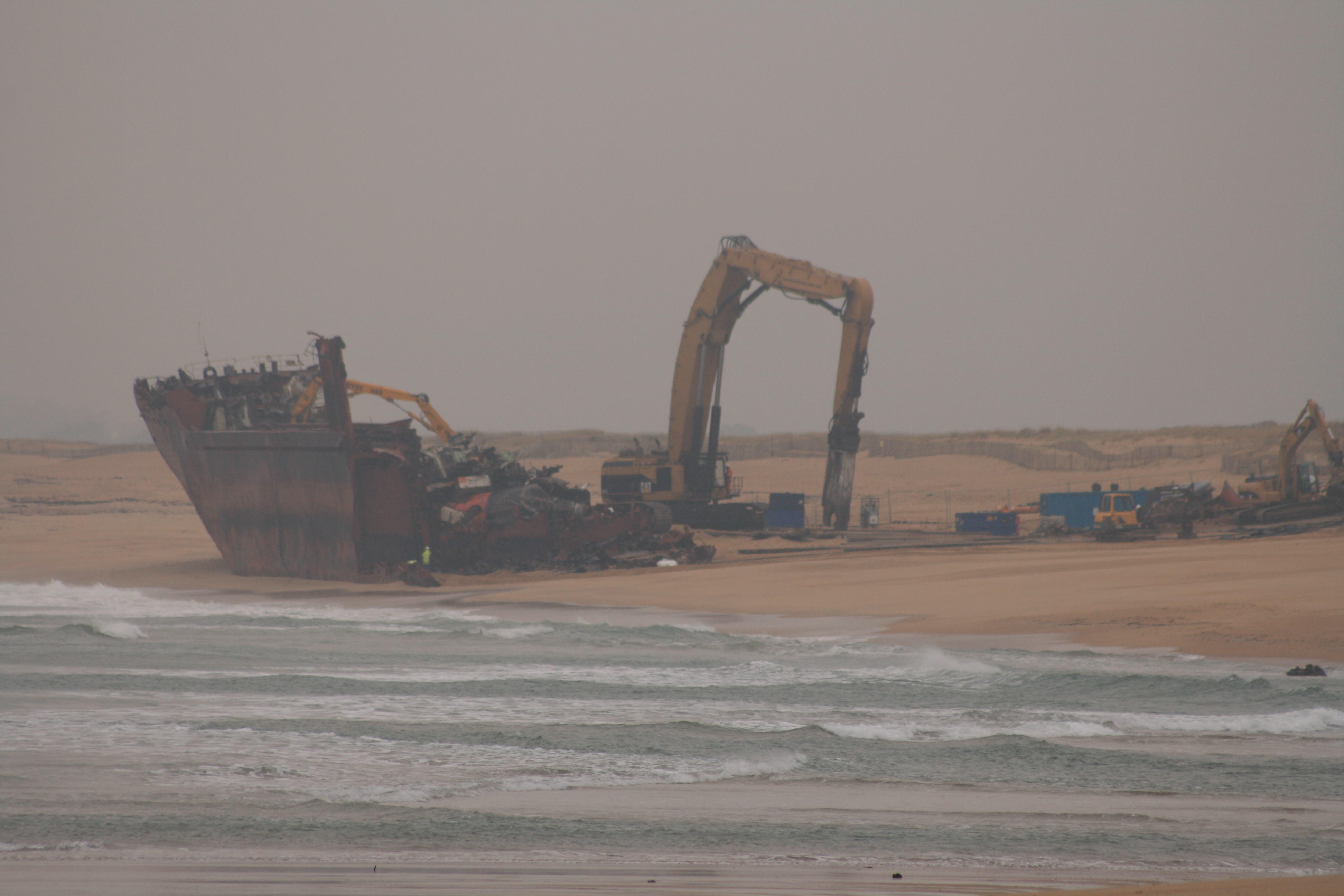 Deconstruction of the TK Bremen, close view